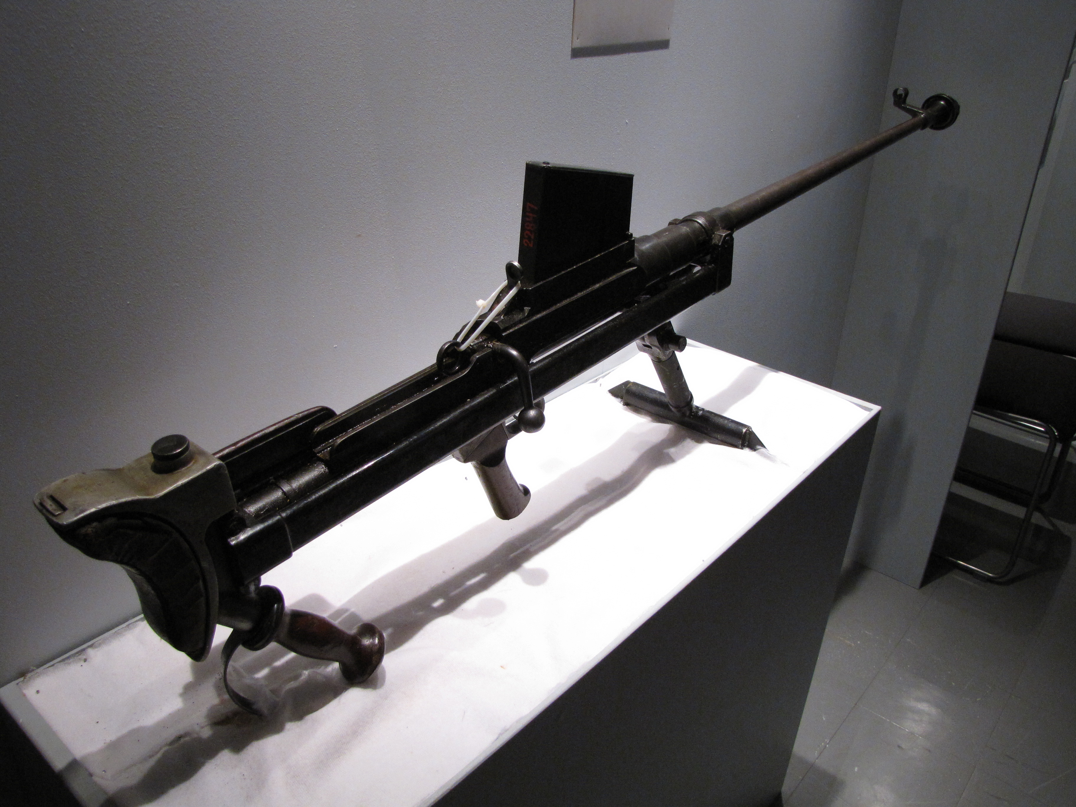 Boys anti-tank rifle. Photographed in the "Winter War - 70 years" exhibition in the Military Museum of Finland.